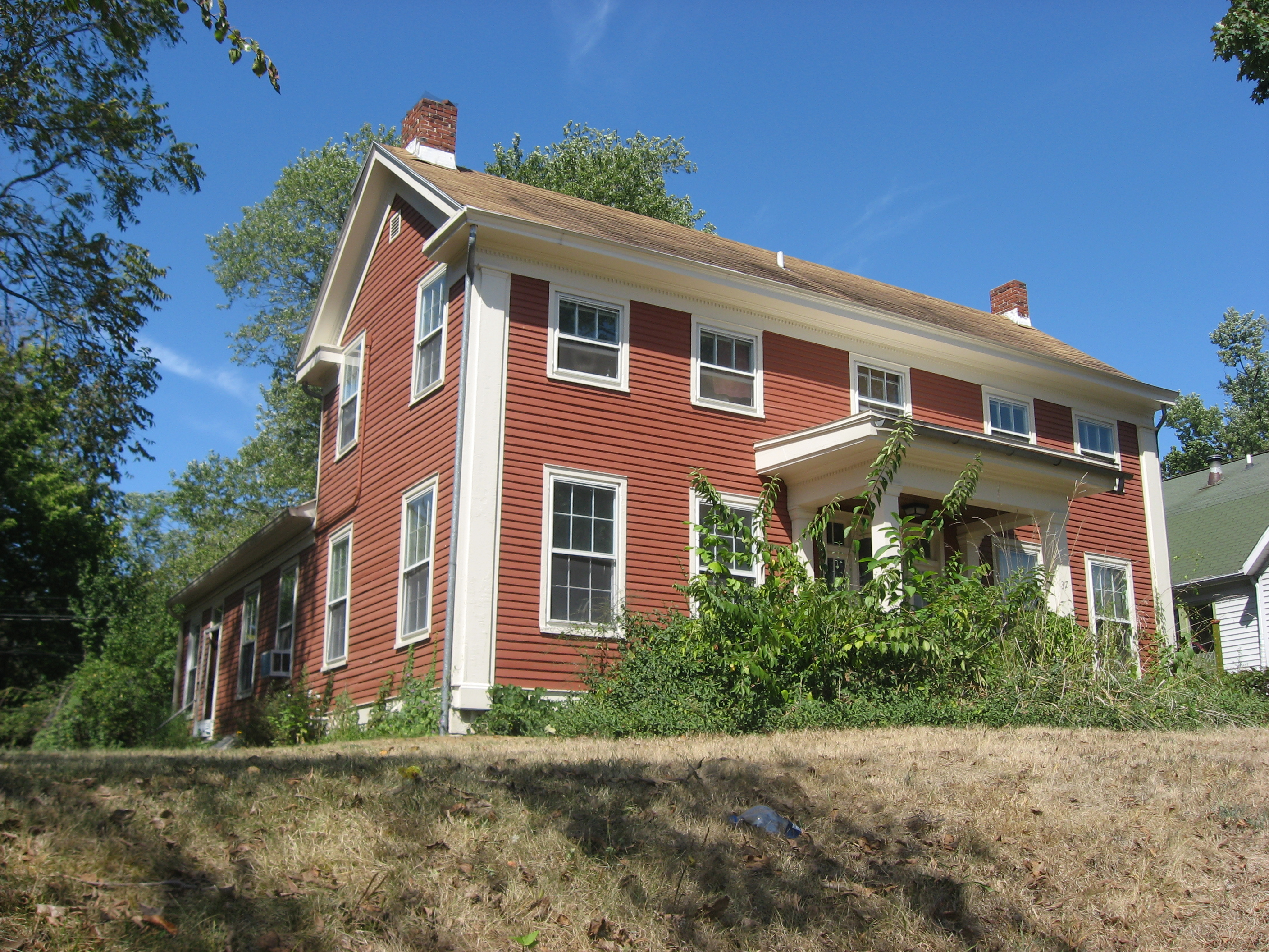 Front of the Elias Abel House, located at 317 N. Fairview Street in Bloomington, Indiana, United States. Built in 1845, it is listed on the National Register of Historic Places, and it is part of a Register-listed historic district, the Bloomington West Side Historic District.